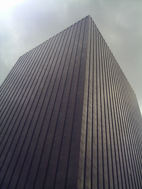 Headquarters of Bank Safra, in Paulista avenue, in São Paulo City, Brazil.